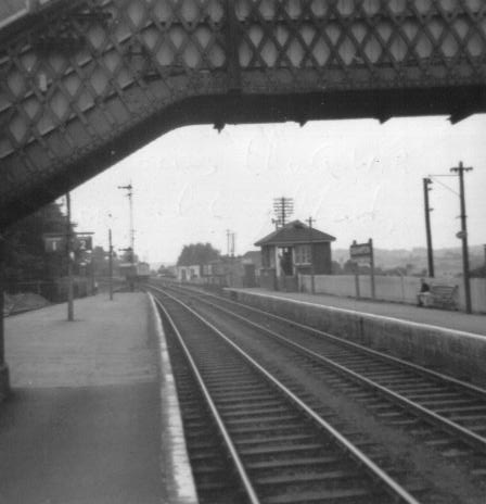 Okehampton railway station in Devon on the line to Tavistock and Plymouth. Looking towards Meldon Quarry in July 1969.